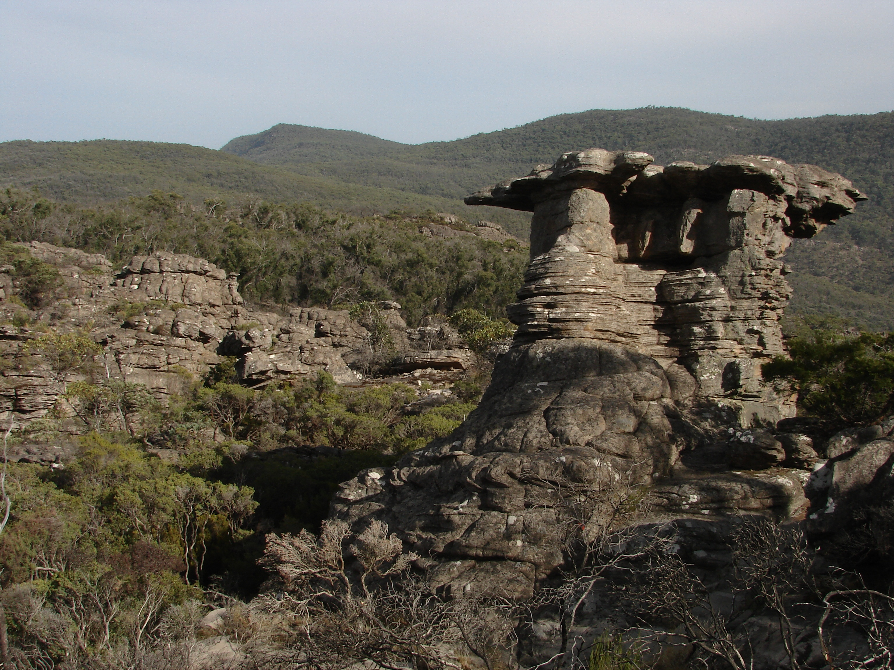 Grampians National Park, Victoria, Australia. Boulder in the Wonderland Range